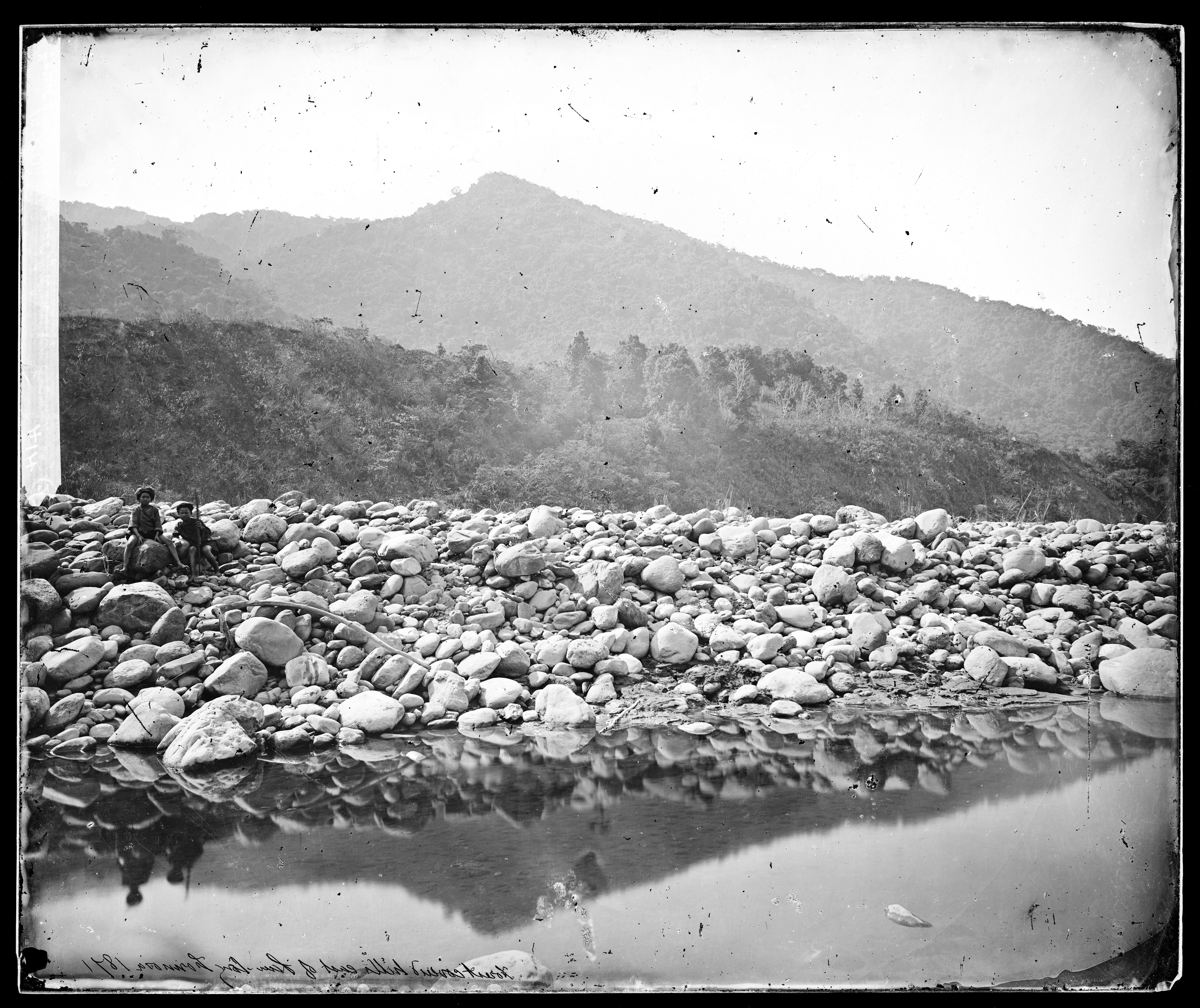 Lalung, Formosa [Taiwan]. Photograph by John Thomson, 1871. Iconographic Collections Keywords: J. Thomson